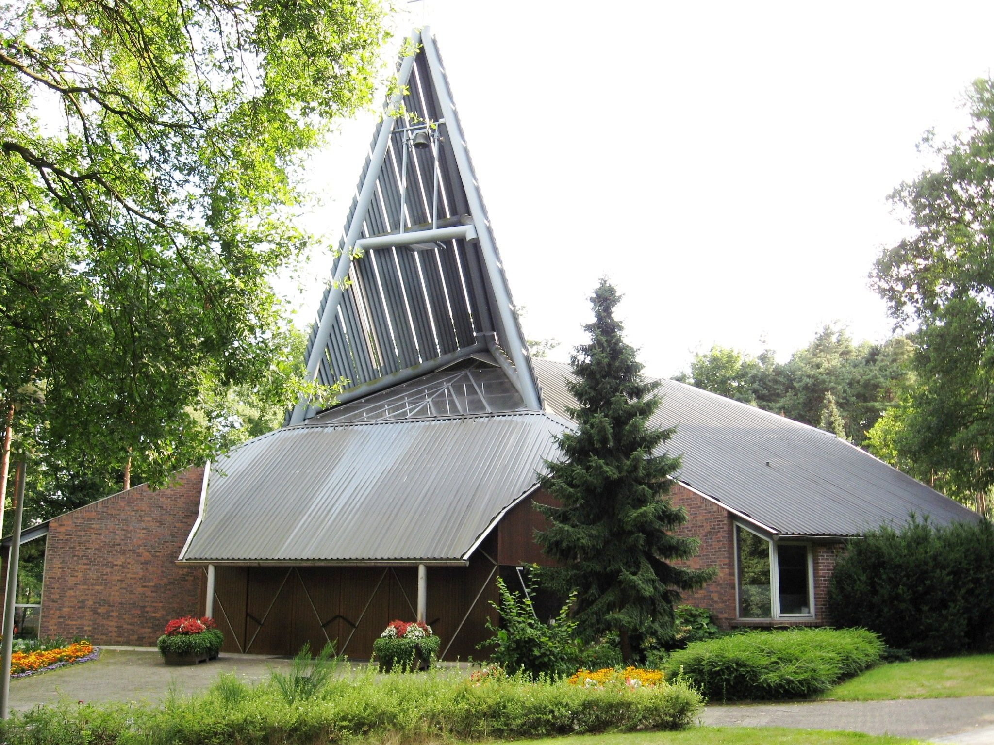 en